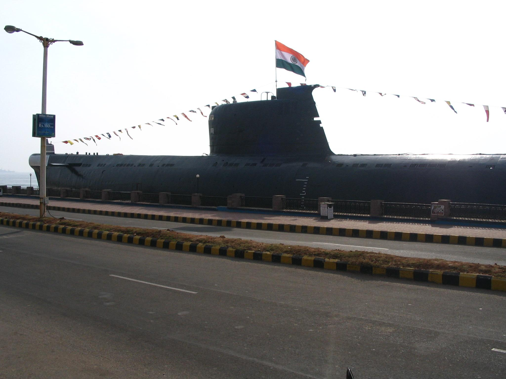 INS Kursura Submarine museum in Visakhapatnam